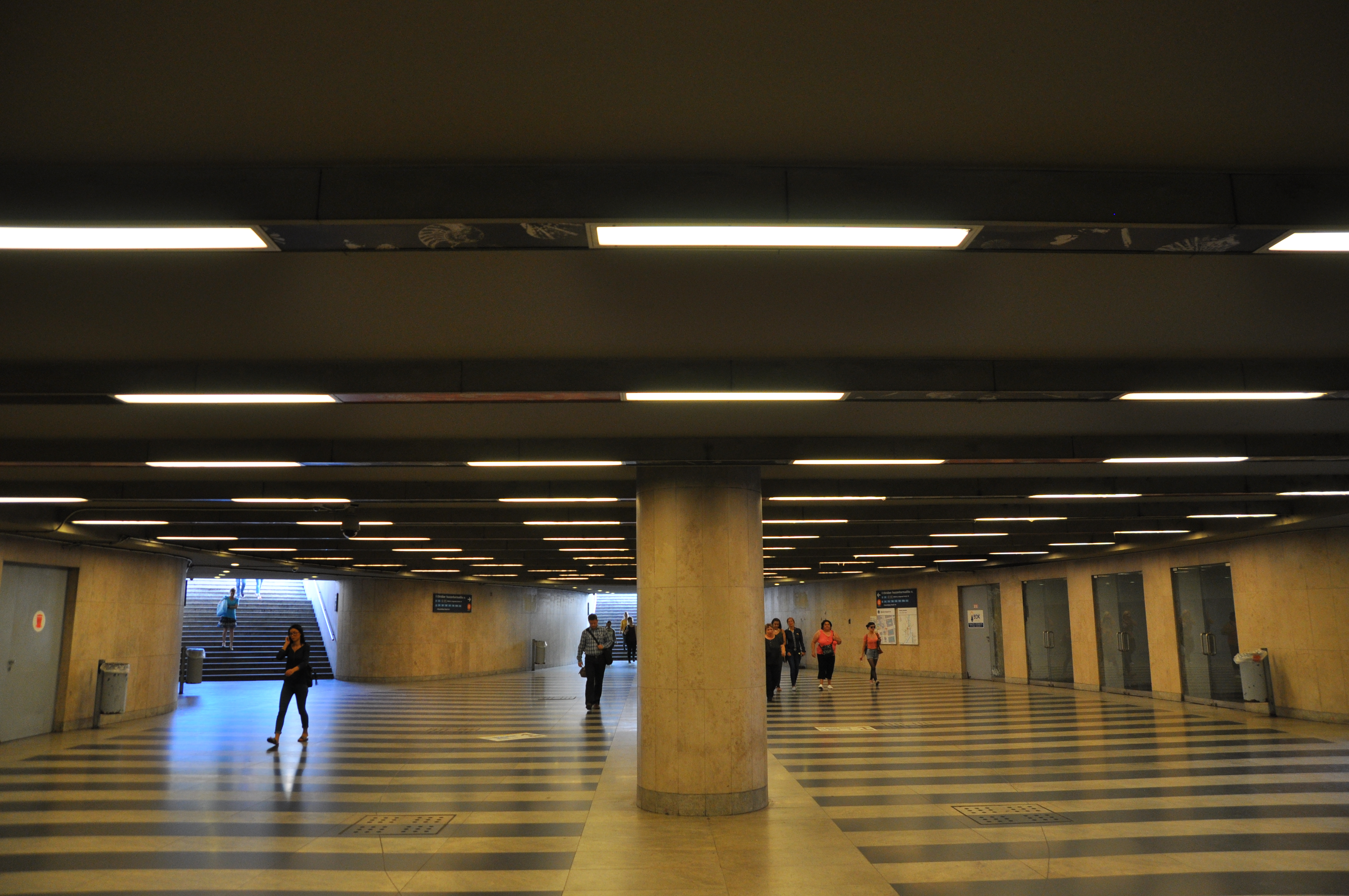 Budapest, metró 4, Újbuda-központ